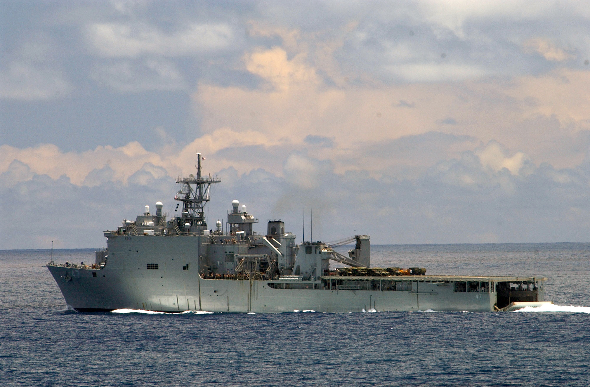 040718-N-5055W-034 Pacific Ocean – The amphibious dock landing ship USS Rushmore (LSD 47) heads out to sea after dispatching Amphibious Assault Vehicles (AAV) during a mechanized amphibious raid in support of exercise Rim of the Pacific (RIMPAC) 2004. RIMPAC is the largest international maritime exercise in the waters around the Hawaiian Islands. This year's exercise includes seven participating nations; Australia, Canada, Chile, Japan, South Korea, the United Kingdom and the United States. RIMPAC is intended to enhance the tactical proficiency of participating units in a wide array of combined operations at sea, while enhancing stability in the Pacific Rim region.